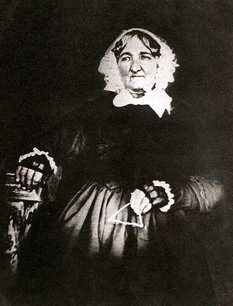 Charlotte Kemp taught in the girls' and infants' schools while her husband James worked as a missionary